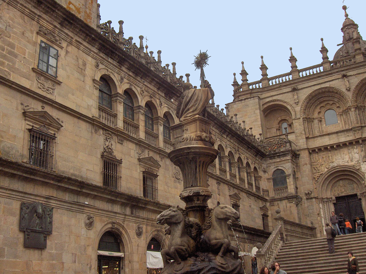 Praza das Praterias; the cathedral of Santiago de Compostela, Spain